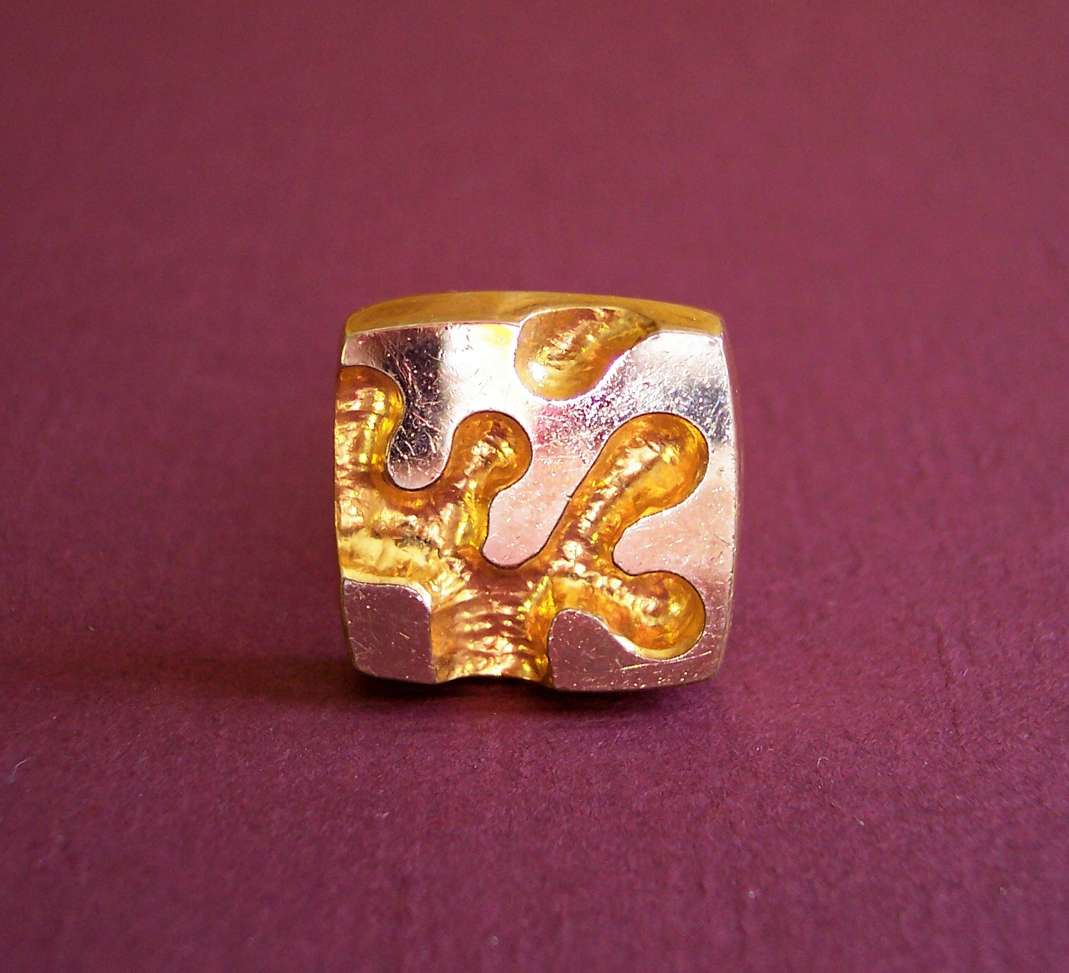 cufflink designed by Alfred Bauer, Idar-Oberstein, Germany, about 1965